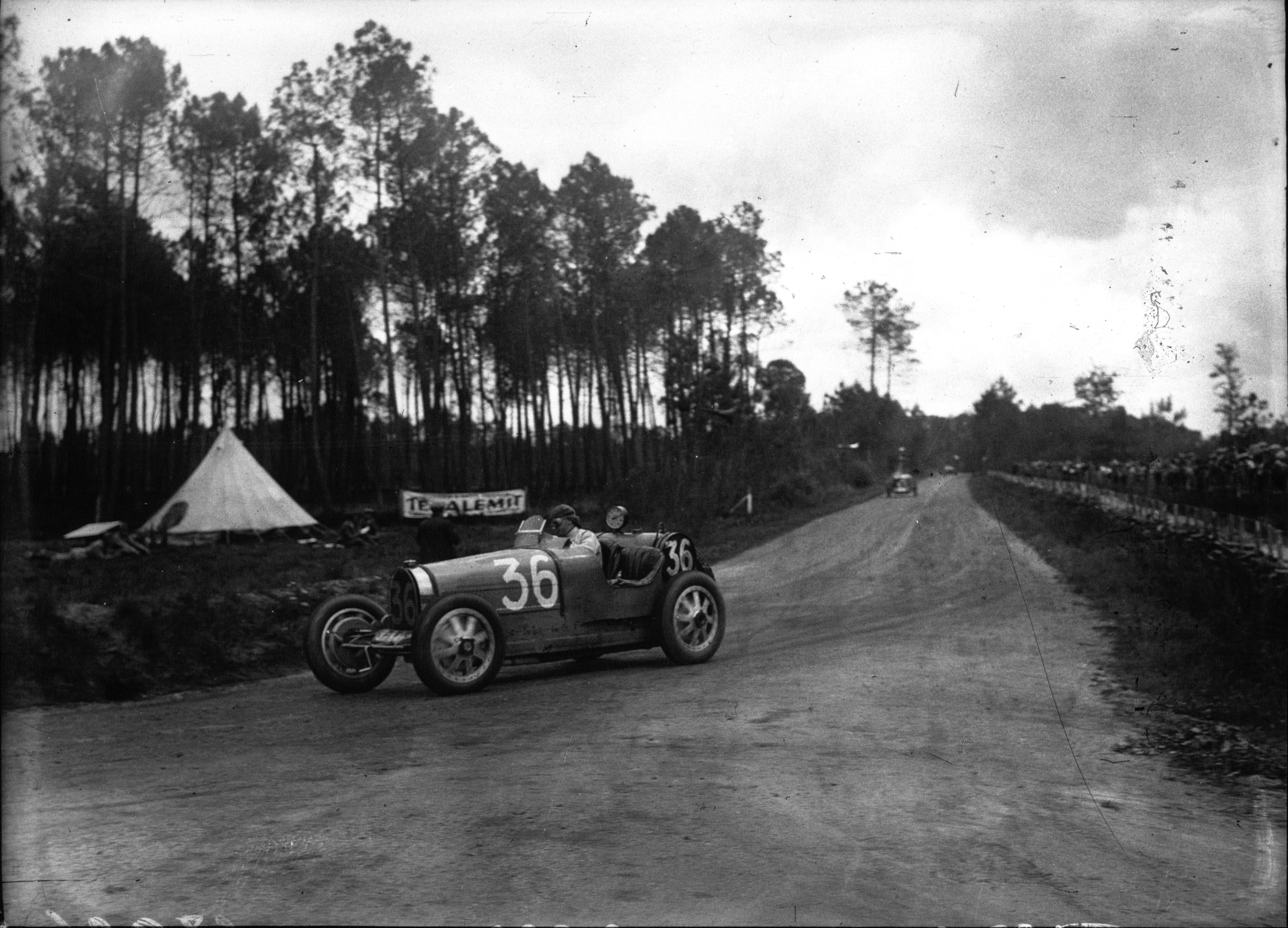 William Grover-Williams at the 1929 French Grand Prix